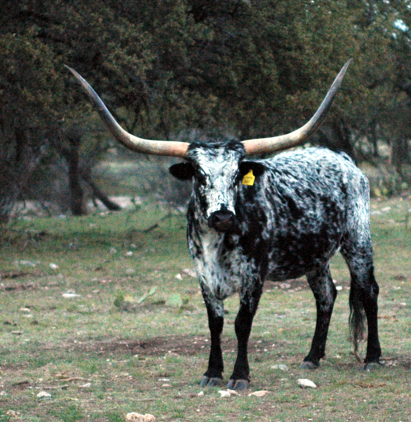 One of several longhorn steers along HWY 377 just West of Rocksprings, TX.